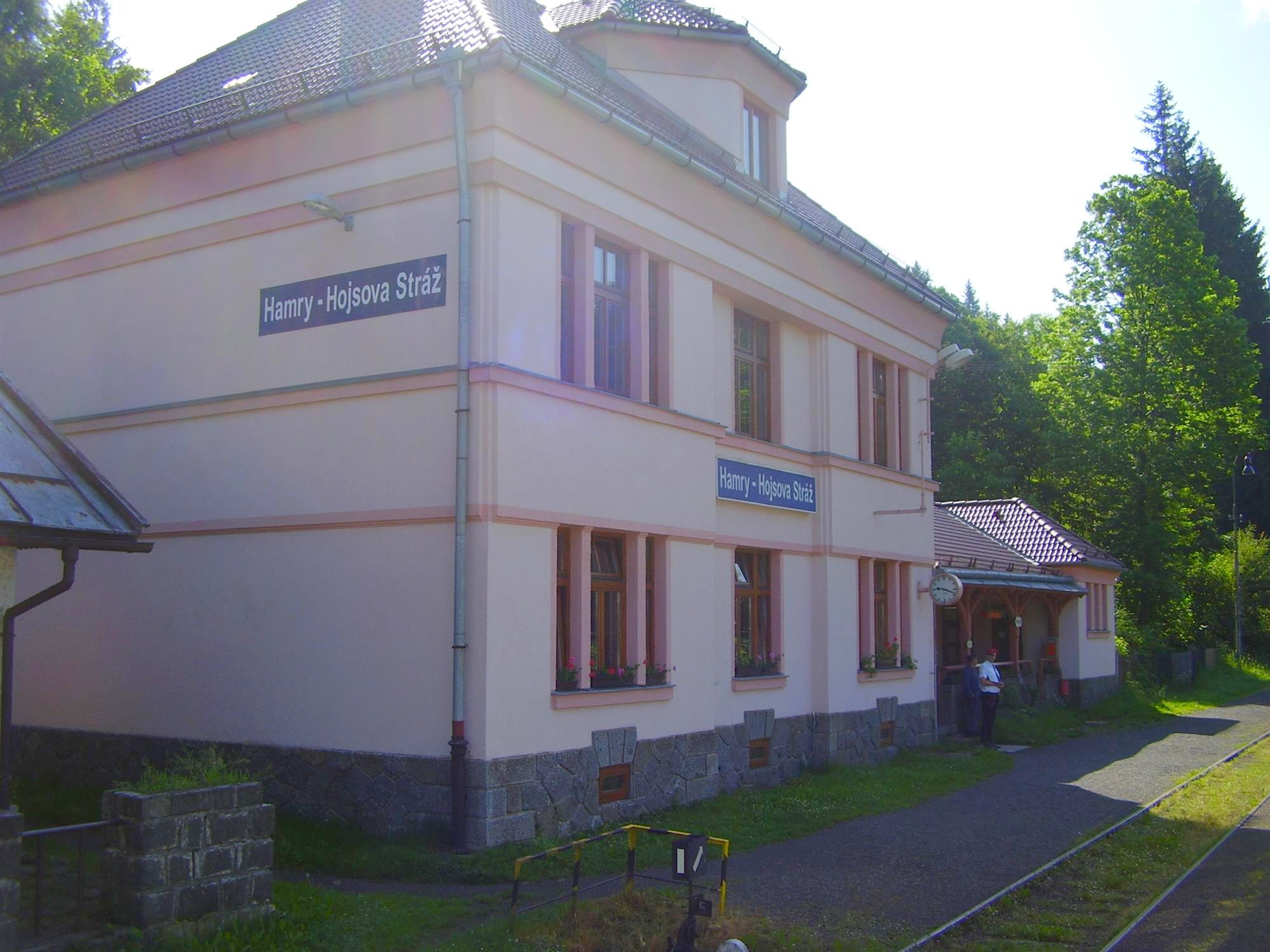 Train station Hojsova Stráž-Hamry